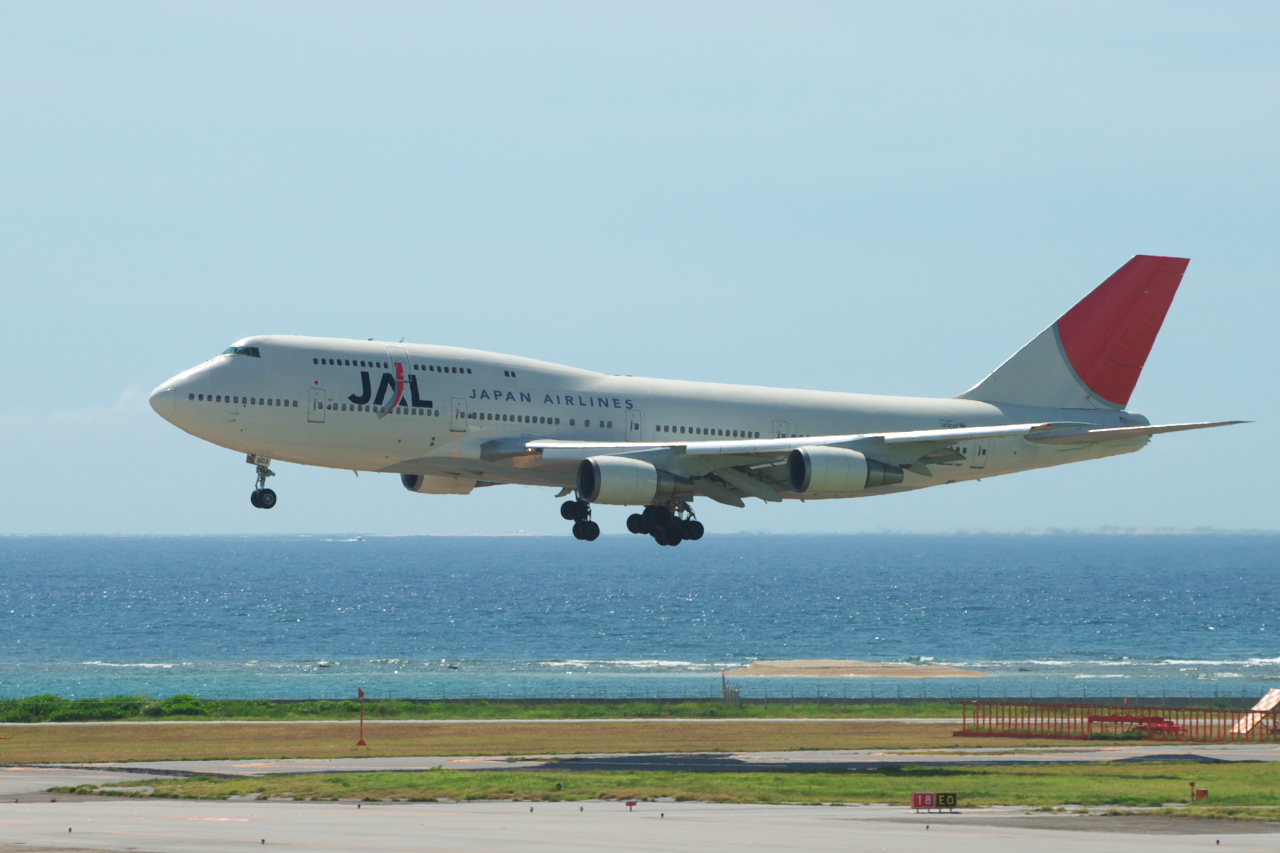 JAL B747-446D (JA8903) Naha airport (OKA/ROAH),Japan runway 18 from observation deck ?????2????????????????????????????????????